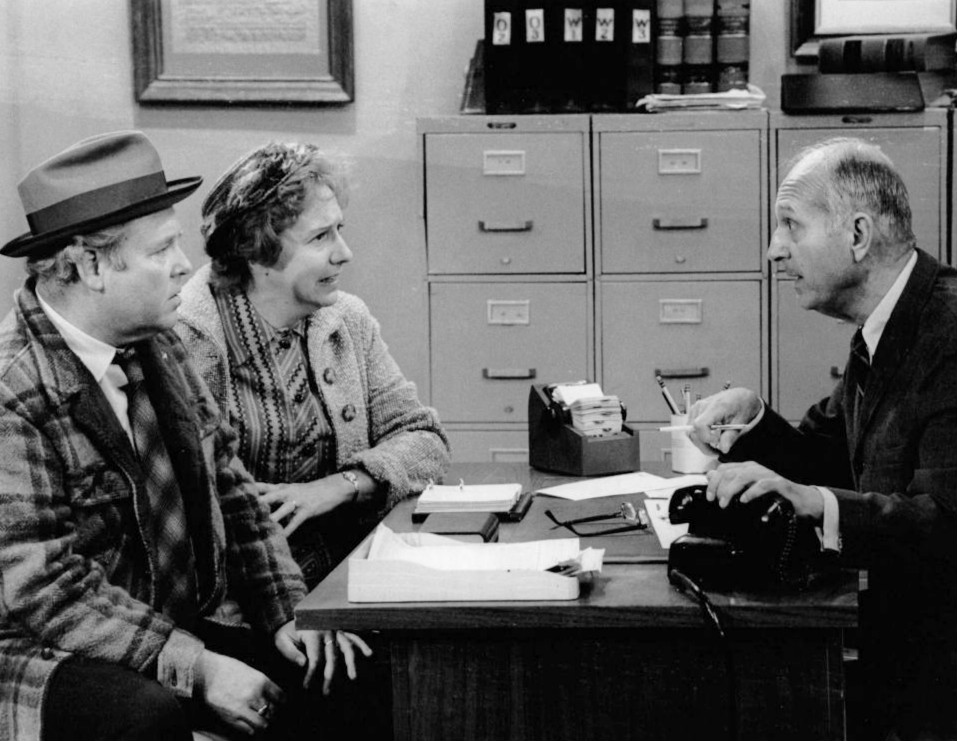 Publicity photo of Carroll O'Connor and Jean Stapleton as Archie and Edith Bunker and guest star James O'Reare as the government official. In this 27 October 1973 episode, the Bunkers try to convince the government that its computers are wrong; Archie isn't dead.